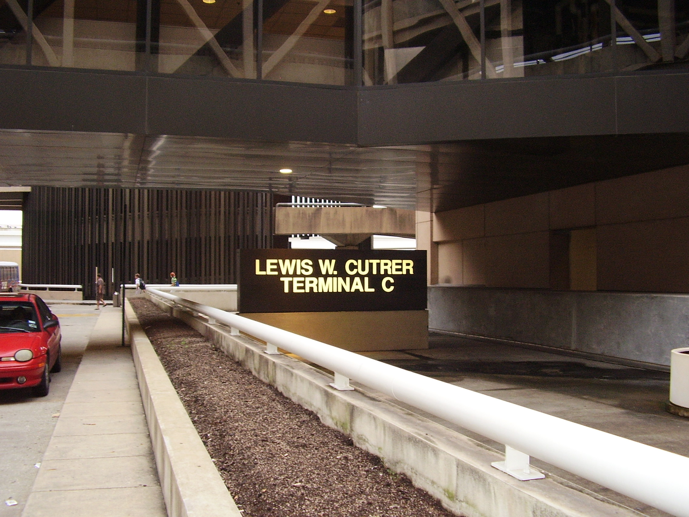 The sign indicating Lewis W. Cutrer Terminal C at George Bush Intercontinental Airport in Houston, Texas